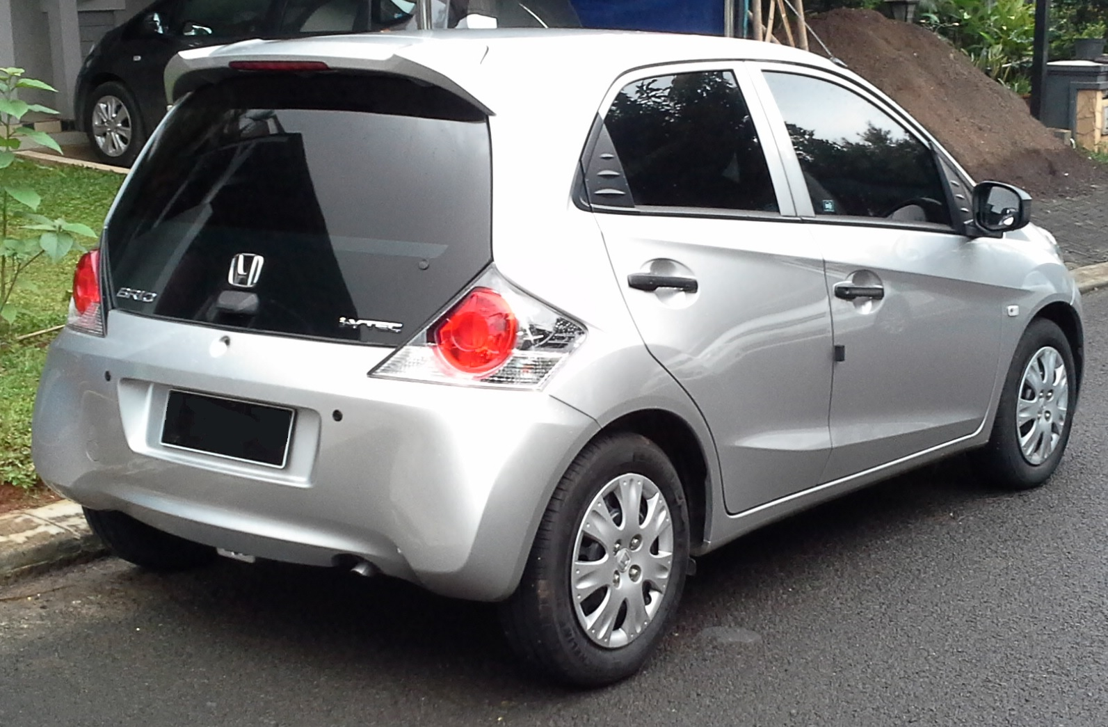 A Honda Brio S 1.3 photographed in Cileungsi, West Java, Indonesia on February 2, 2014.